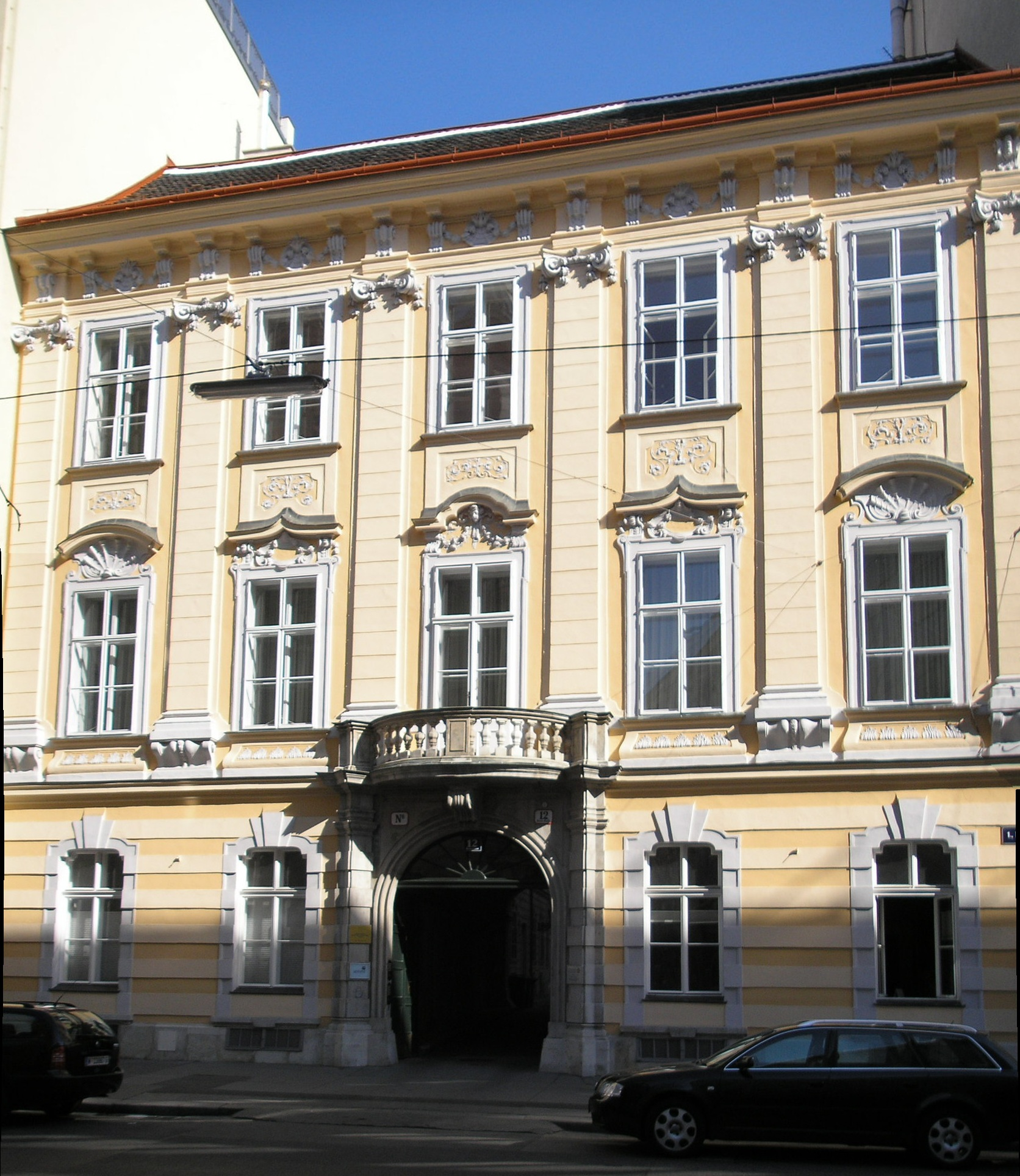 Panorama image of the Palais Windisch-Graetz at Renngasse in Vienna's I. district.